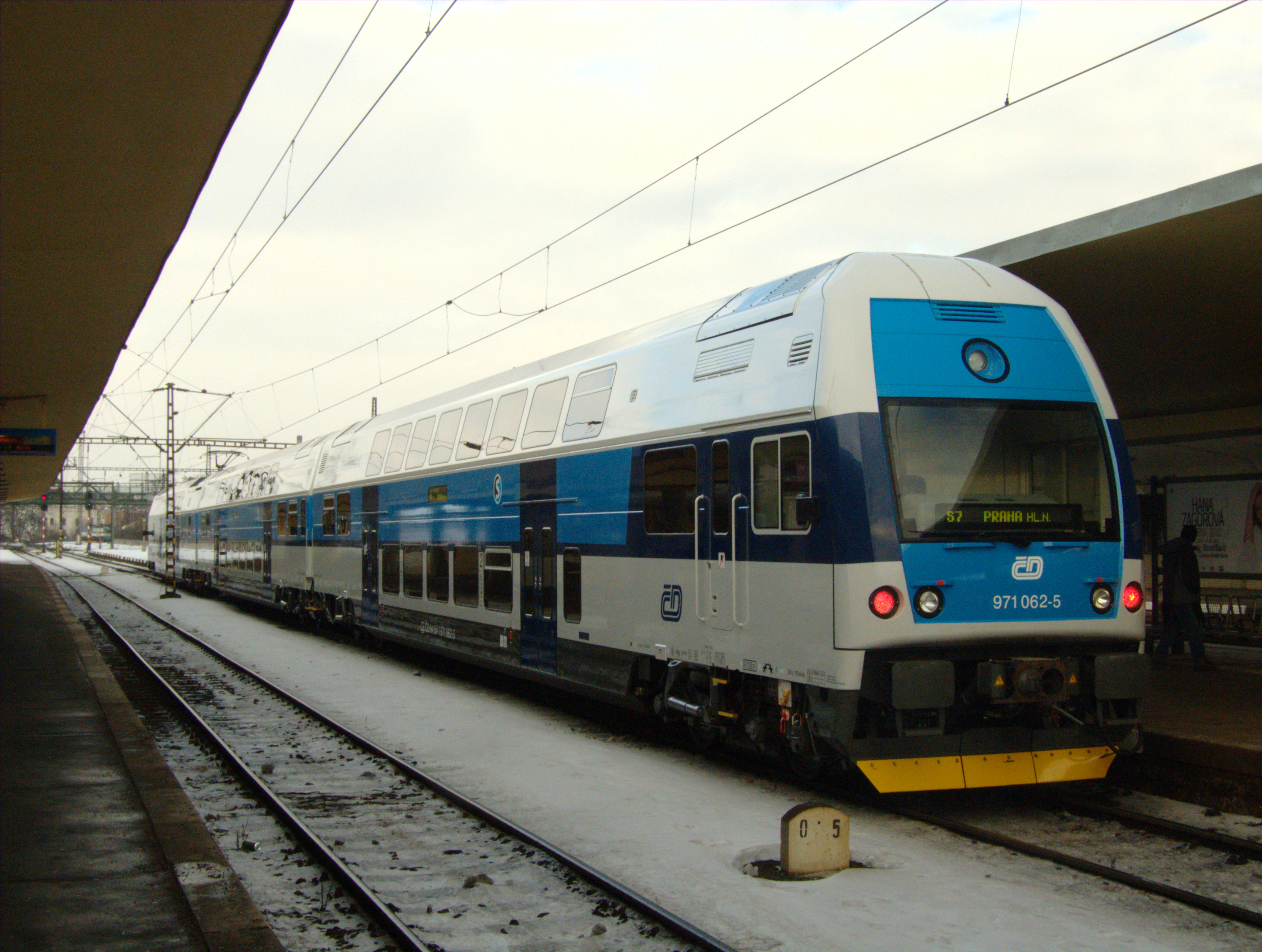 Most likely brand new City Elephant EMU in Prague-Smíchov train station, Prague, CZ